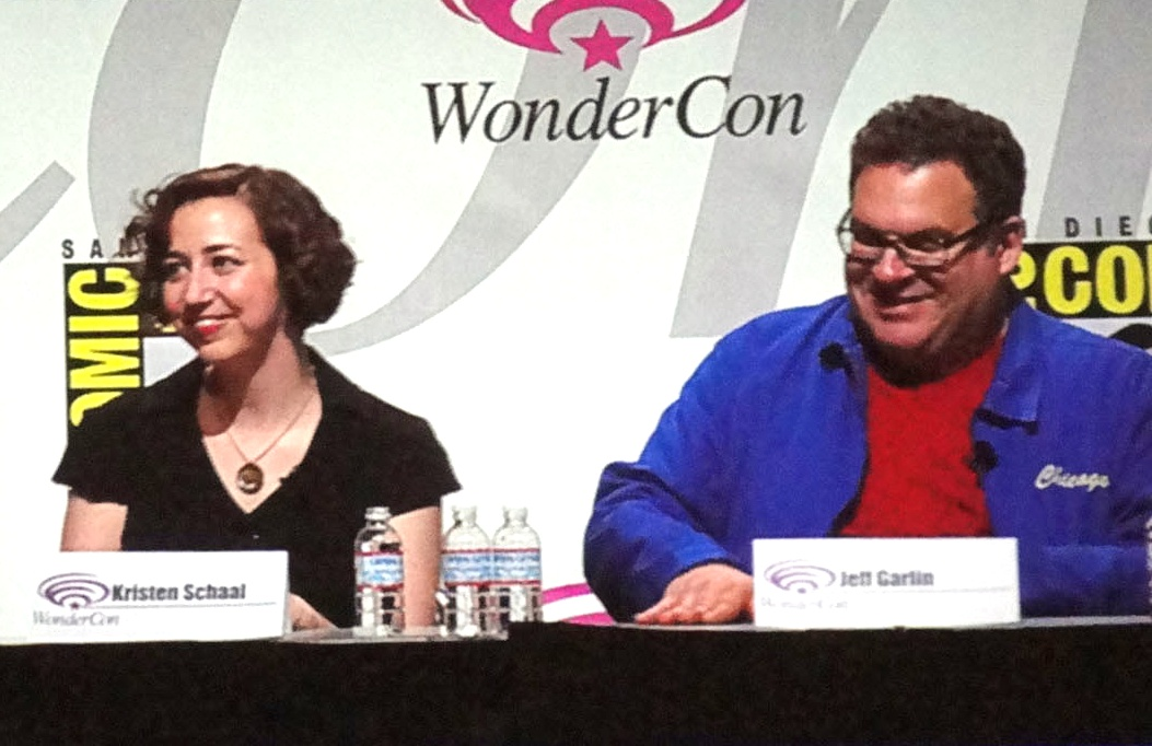 Actors Kristen Schaal and Jeff Garlin participating in the Toy Story 3 panel at WonderCon 2010.